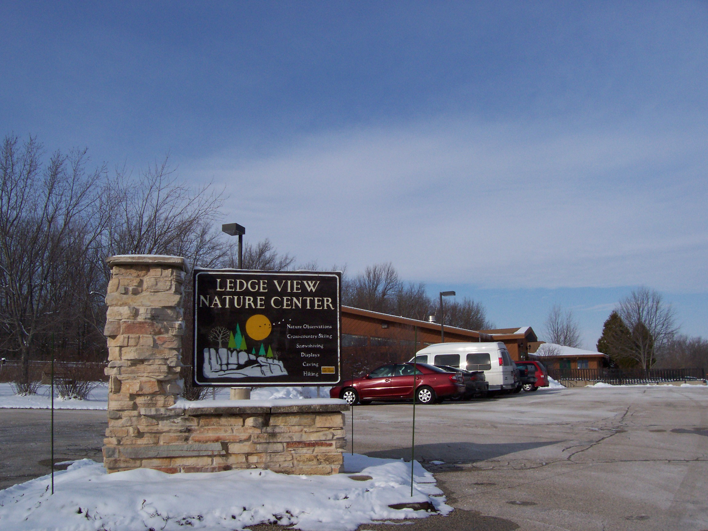 The sign for Ledge View Nature Center near Chilton, Wisconsin, USA.